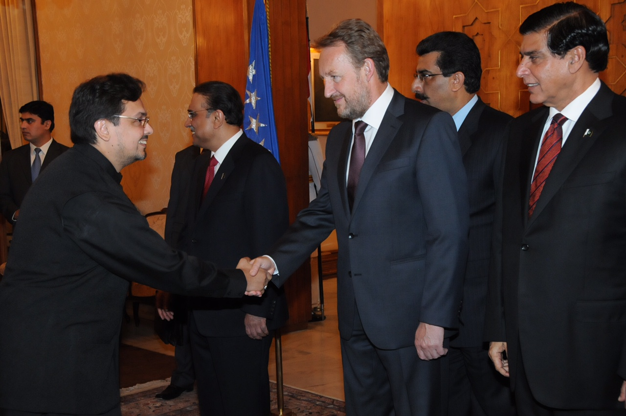 Shahzada Jamal Nazir with Syrian Ambassador to Pakistan